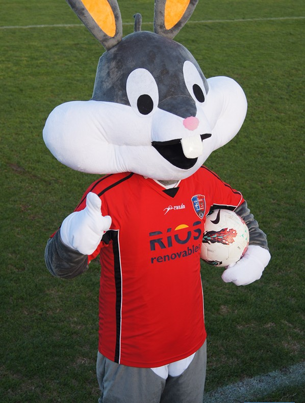 The rabbit "Bartolín", the mascot of C.D. Ribaforada.